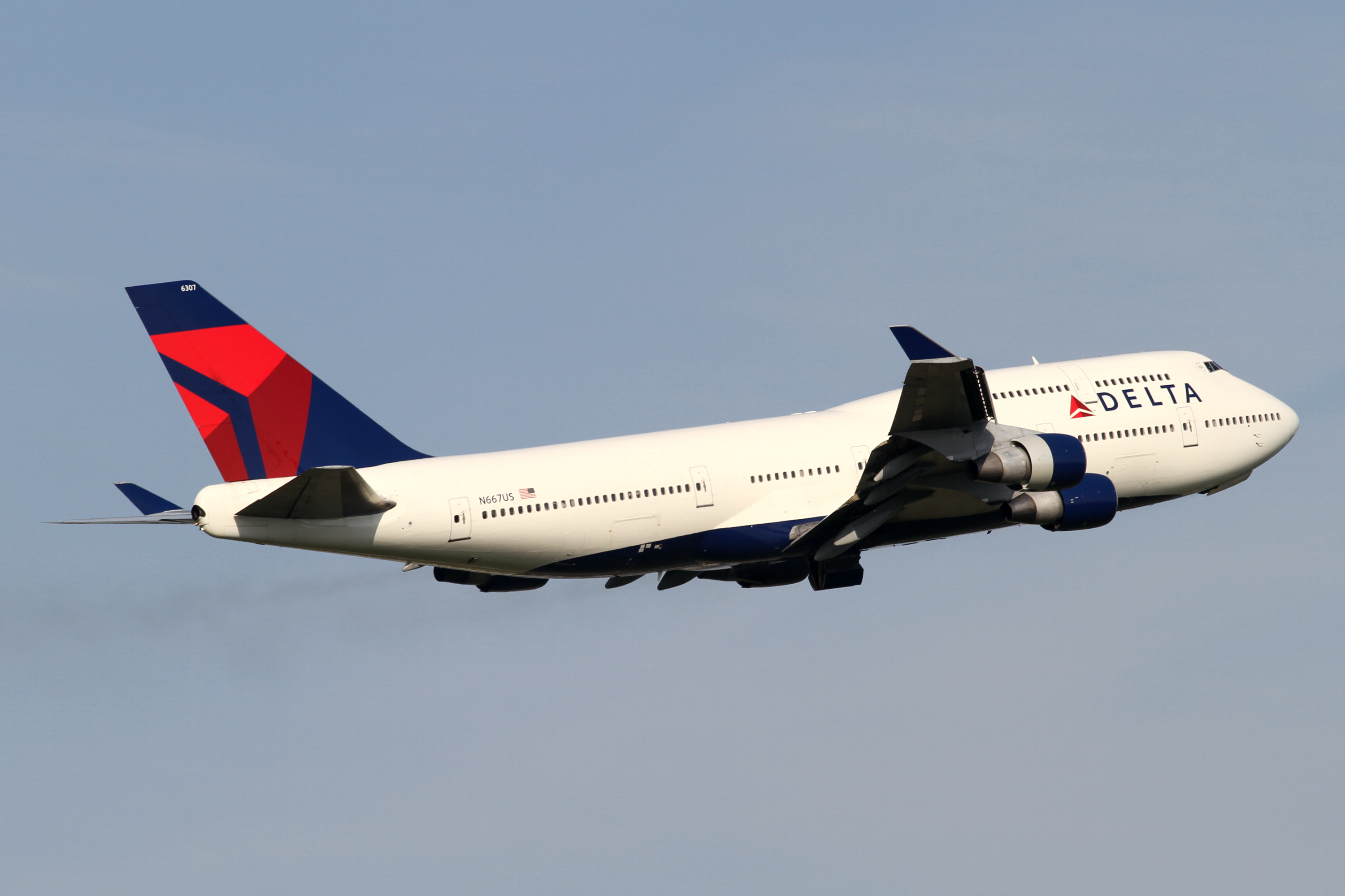 Narita International Airport, Boeing 747-451, c/n:24222, Delta Airliens